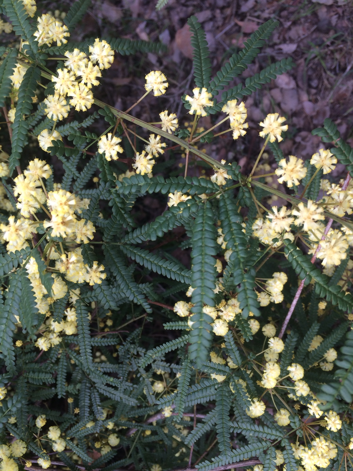 Acacia pentadenia near Pemberton